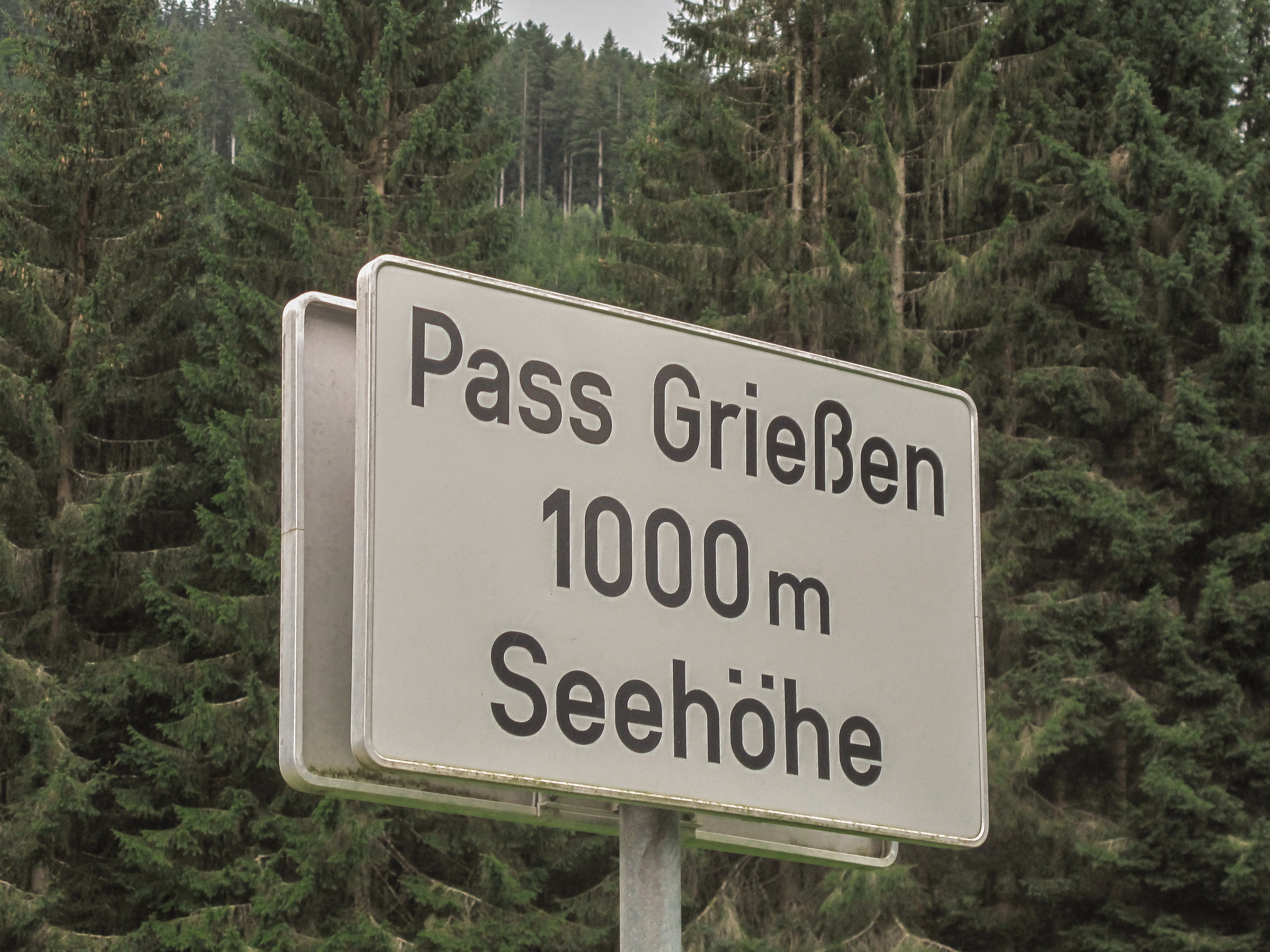 Griessenpass, name sign